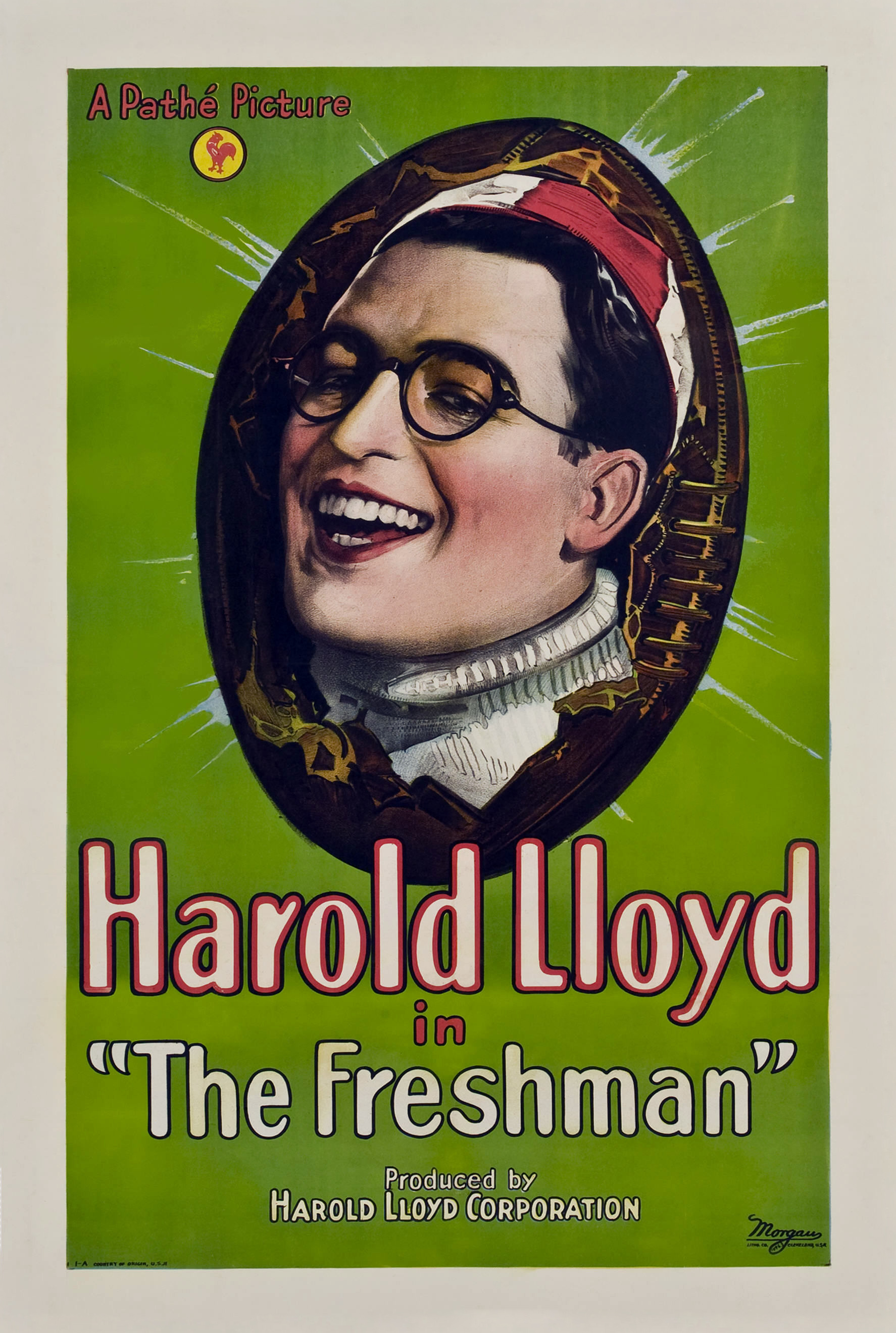 Film poster for the 1925 Harold Lloyd vehicle The Freshman